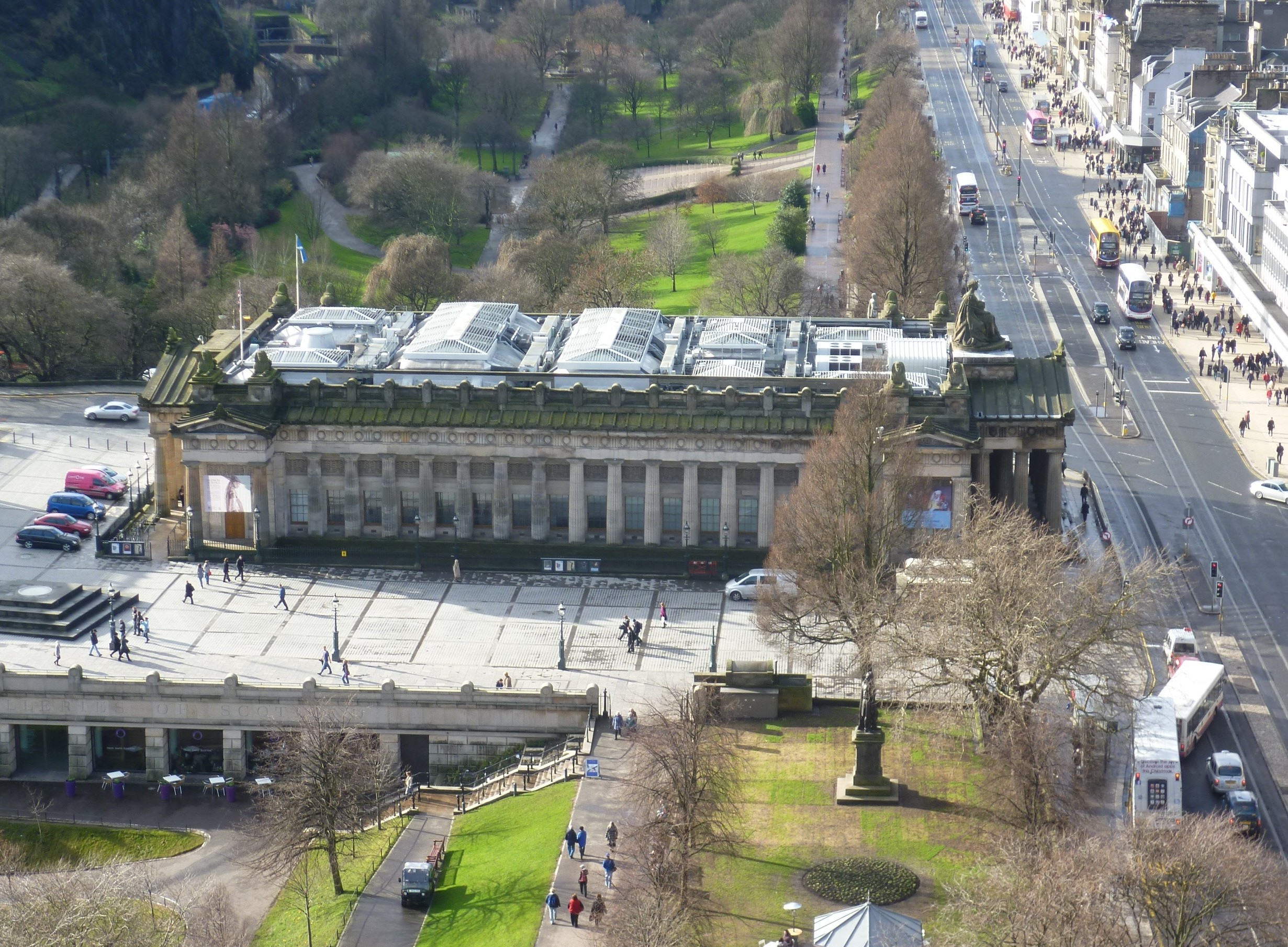 Royal Scottish Academy, Princes Street Edinburgh